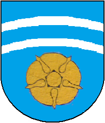 Coat of arms of Pleujouse, Canton of Jura, Switzerland (Source: Symbol on the wall of the municipal administration)